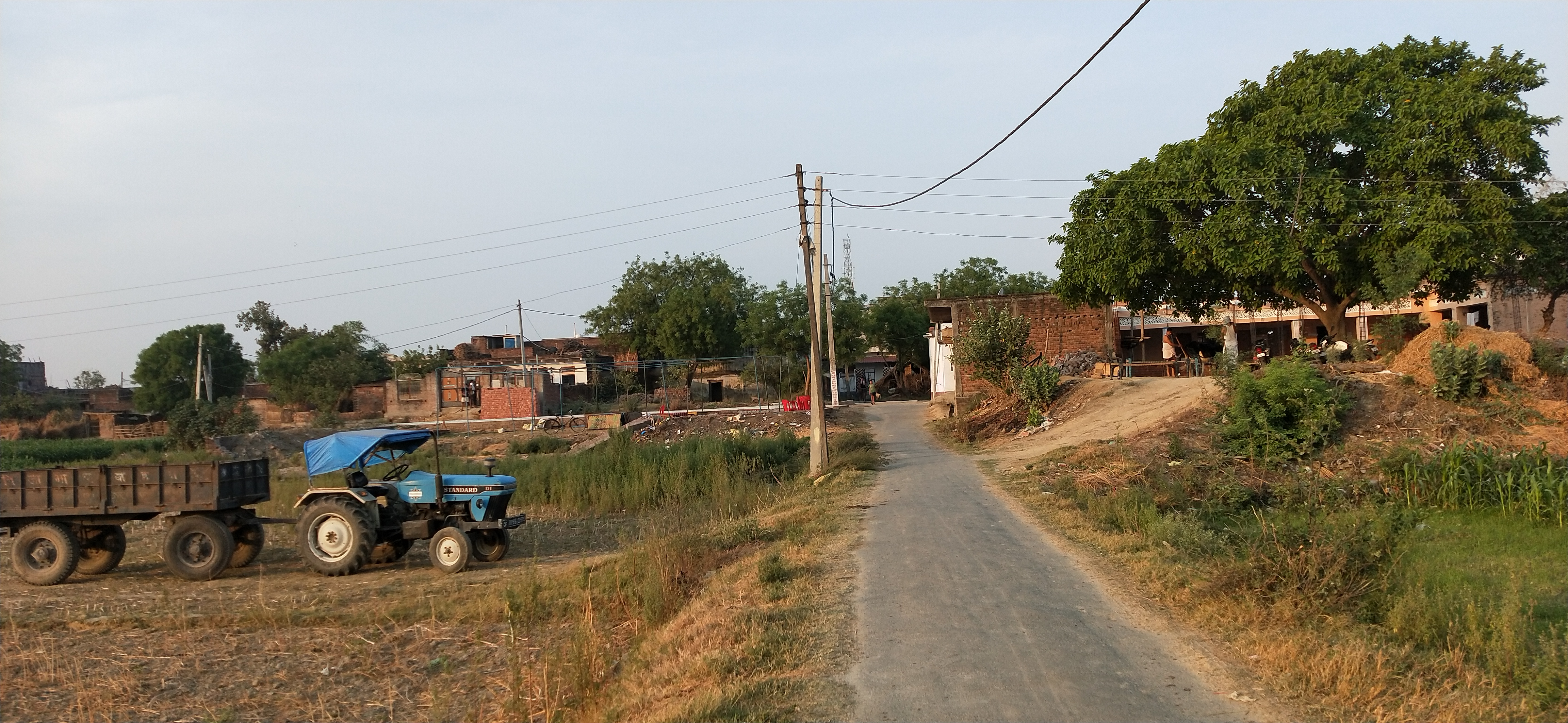 A village of Ghazipur district